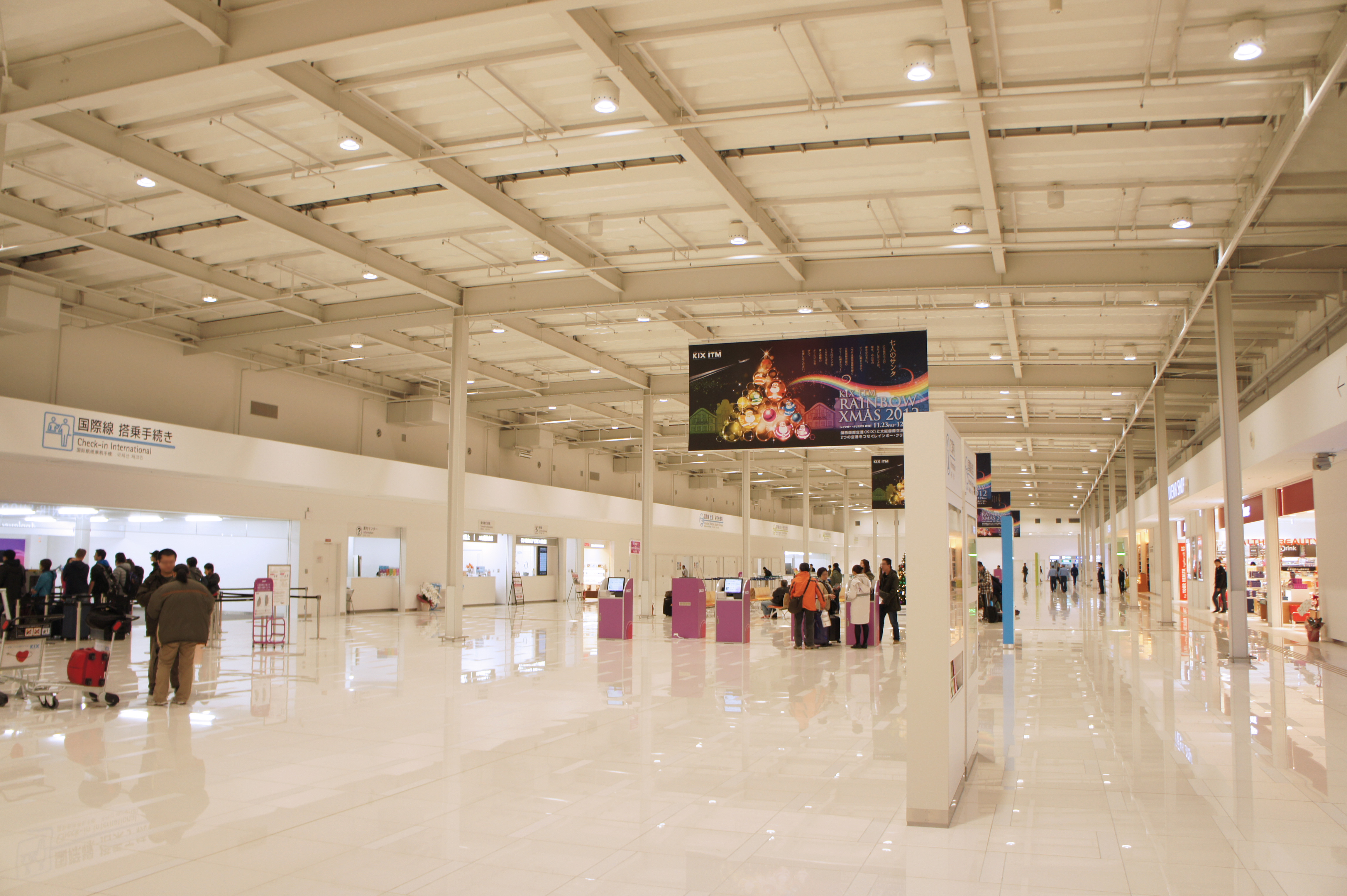 Kansai International Airport Terminal2, Senshukukonaka Tajiri-town Sennan-district Osaka Japan.